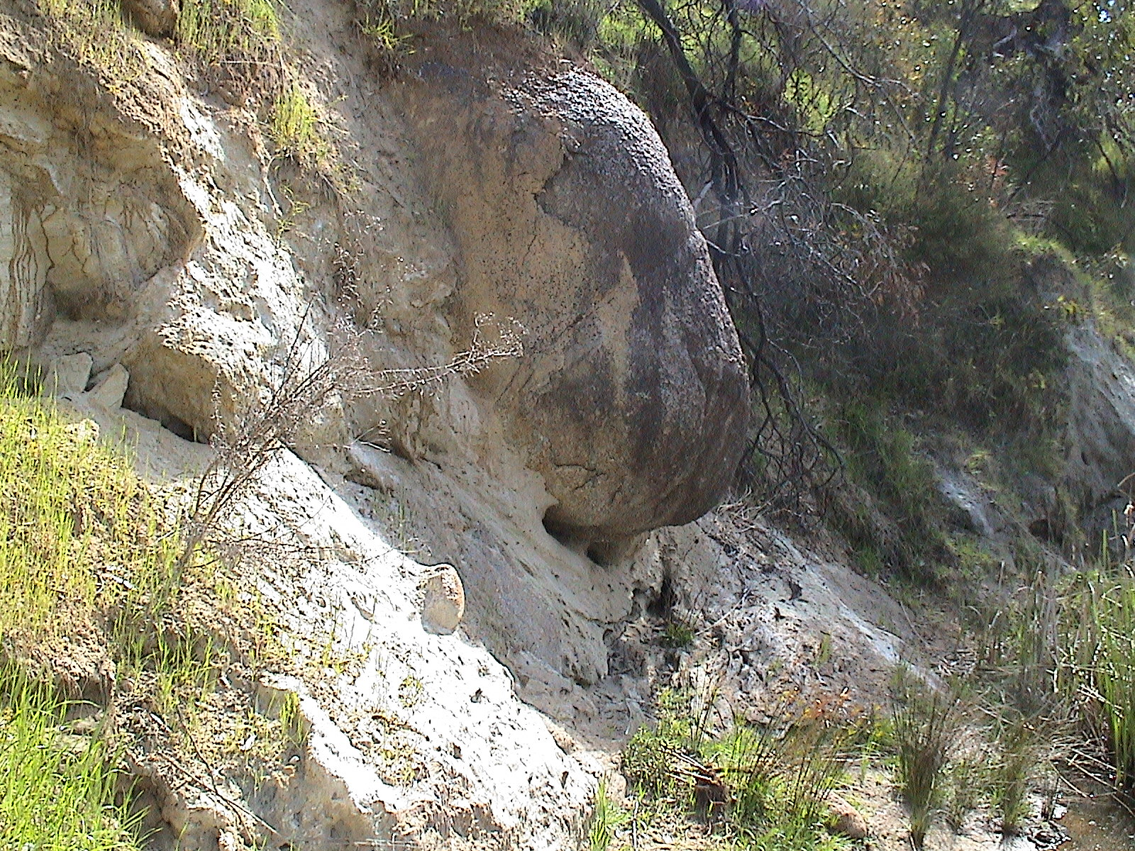 Weathered granite glacial erratic eroding out of unconsolidated Permian till, just above the glacial pavement at Selwyn Rock, Inman Valley, South Australia